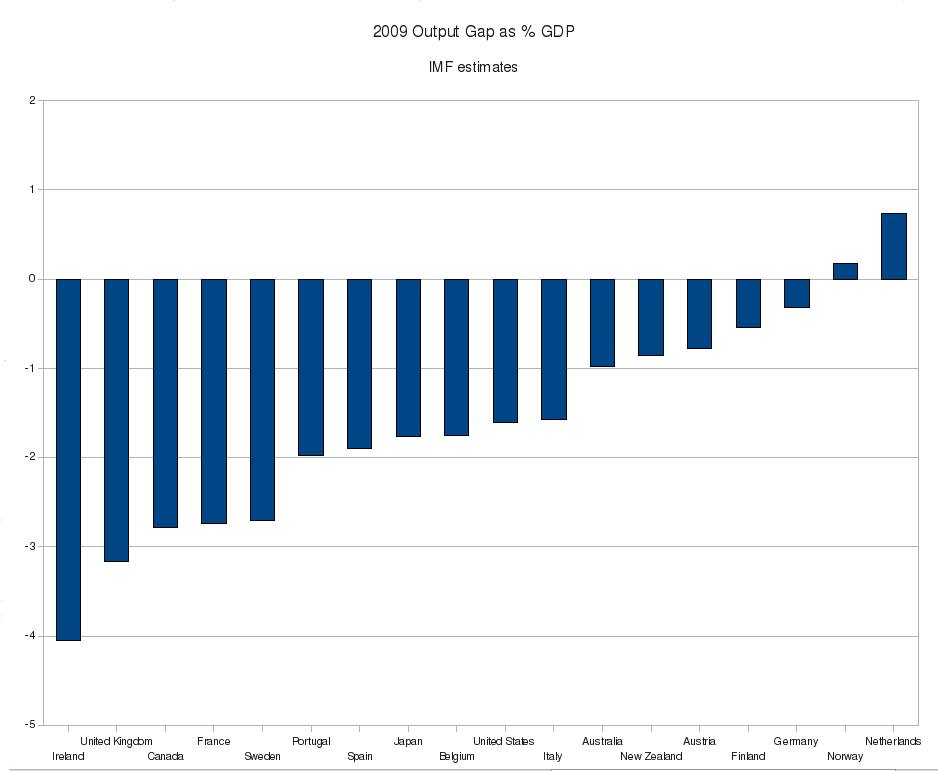 Chart of by country of potential output as a percentage of the given country's GDP. Data comes from the IMF's WEO database as of October 2008. Made in Calc. Data